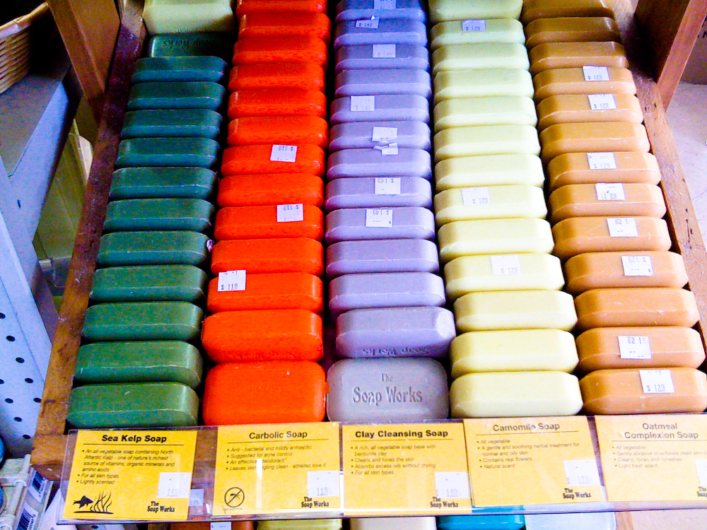 Types of soaps